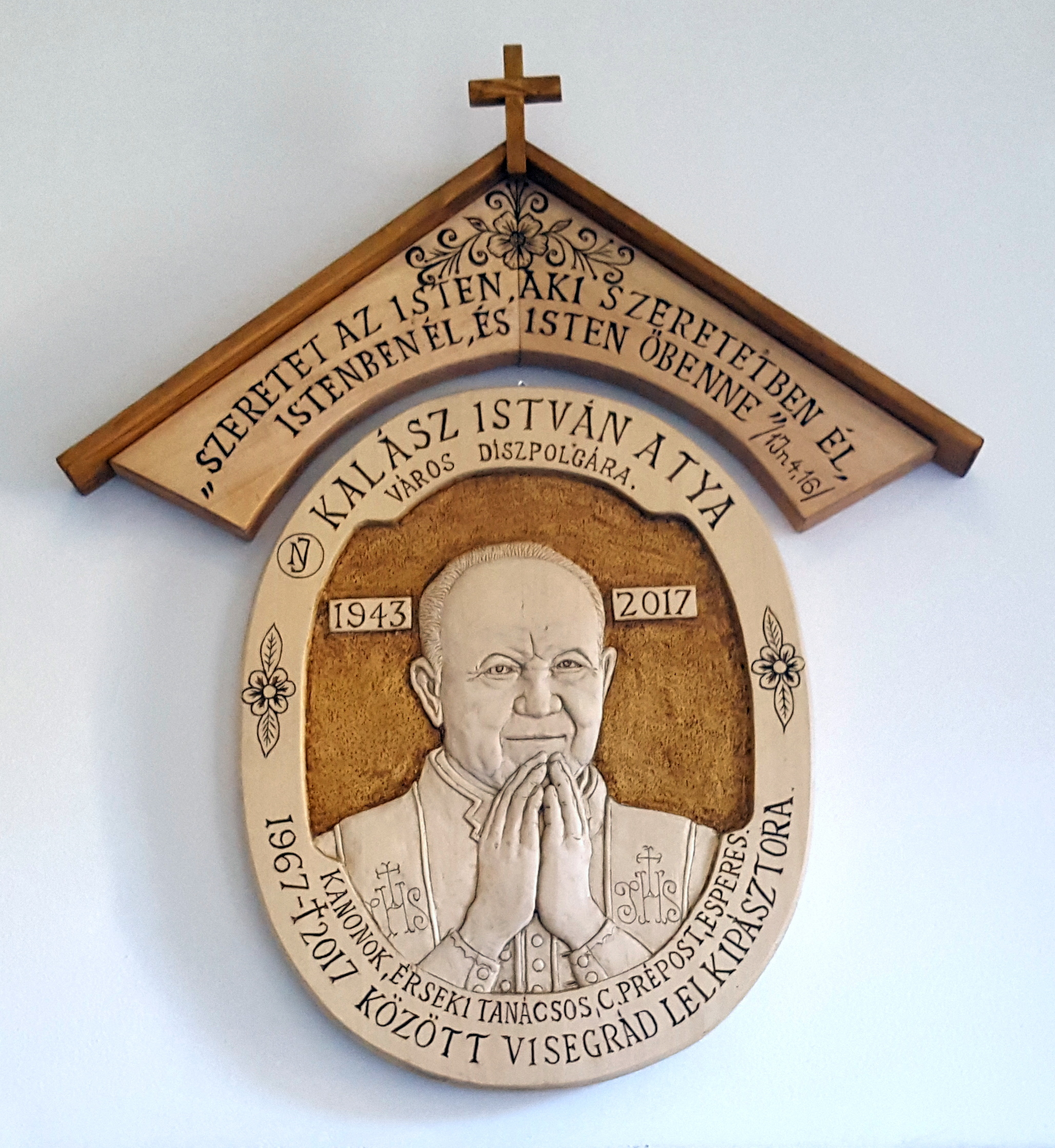 Interior of church in Visegrad. Memorial plaque for István Kalász, roman catholic priest and dean